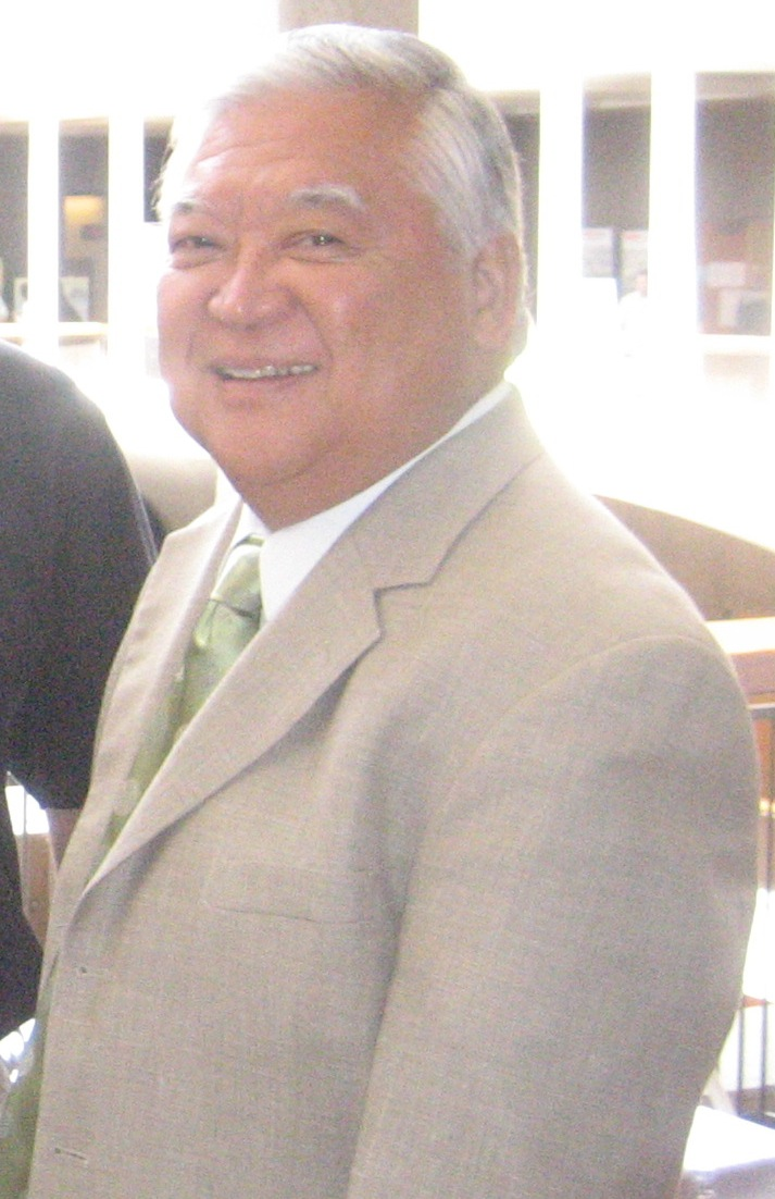 Hawaii State Senator Clarence K. Nishihara, 2009.